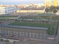 Alfonso Silva Stadium. Las Palmas de Gran Canaria (Canary Islands, Spain)